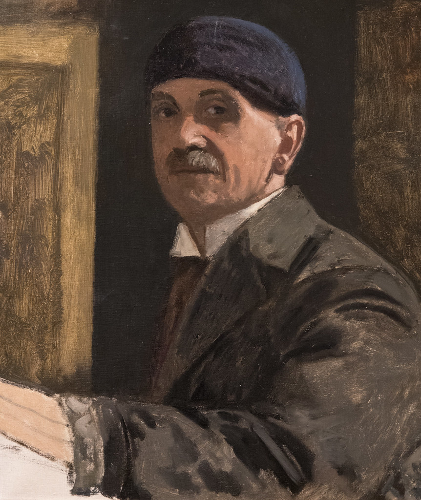 Unfinished self-portrait